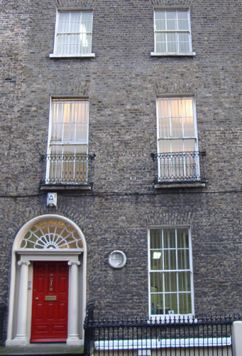 Photograph of George Moore's house in Ely Place, Dublin, Ireland. Taken by me 20 January 2009.